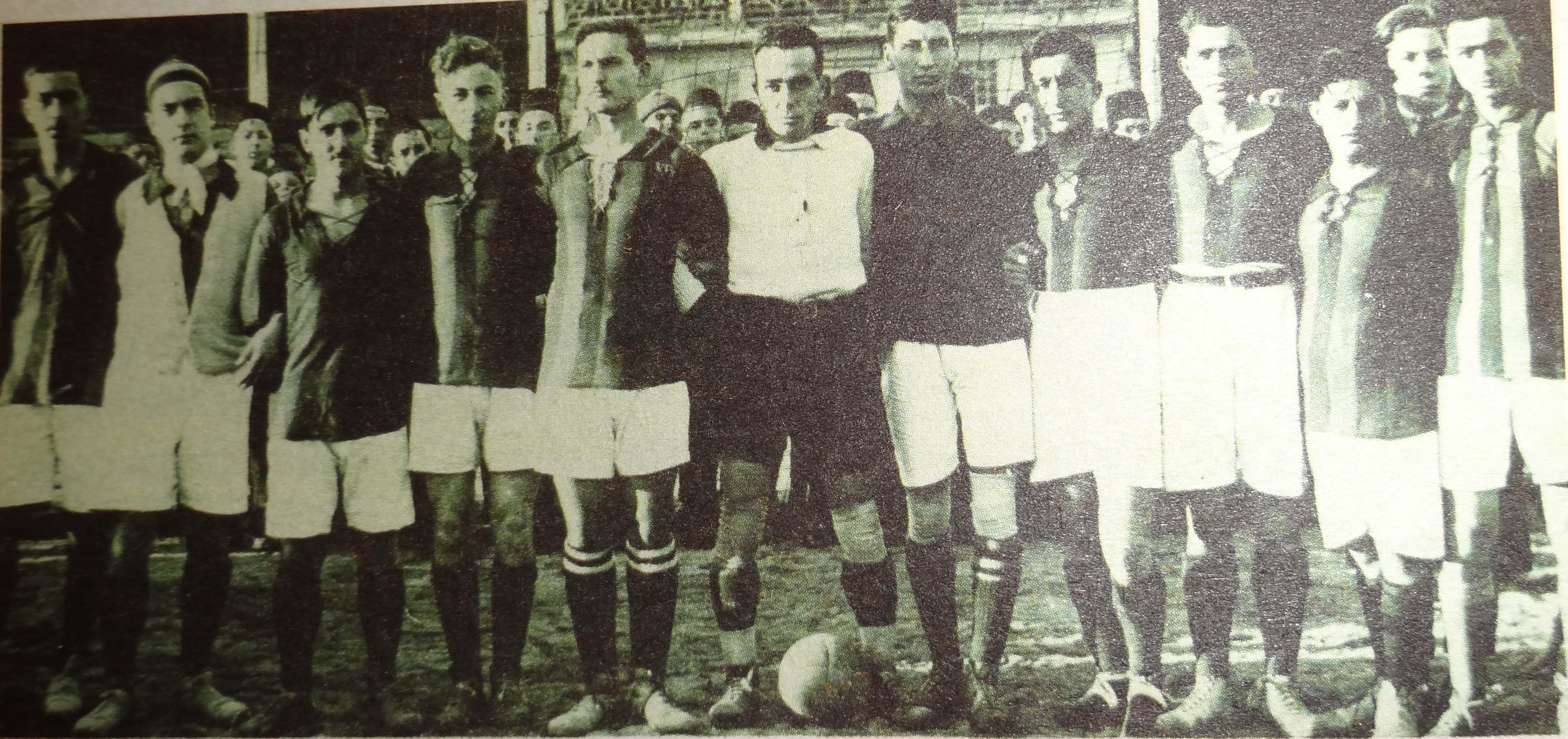 1926-1927 Galatasaray SK